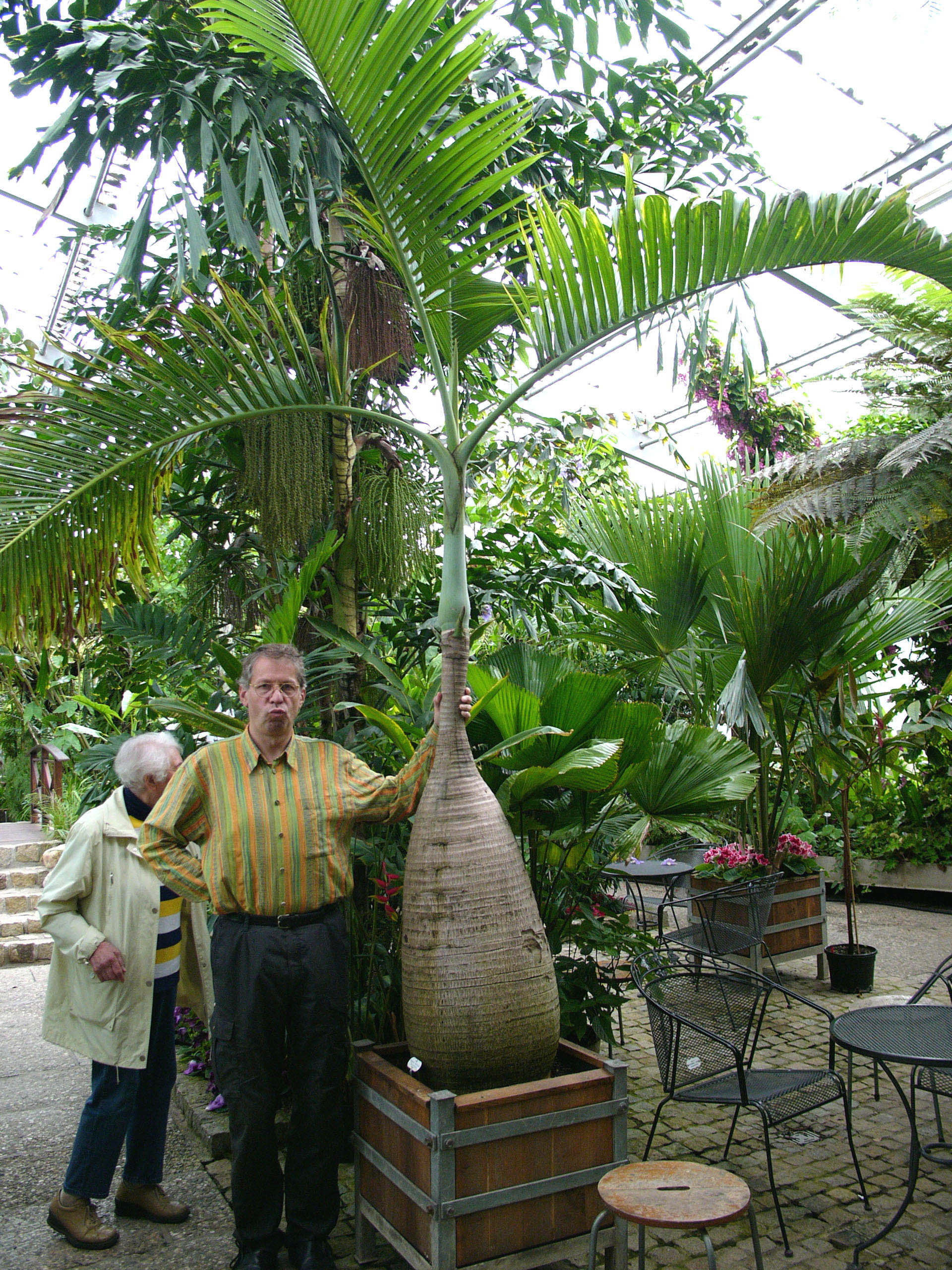 Photo of Bottle palm (Hyophorbe lagenicaulis) taken in the greenhouse of Berggarten, Herrenhäuser Gärten, Hannover, Germany